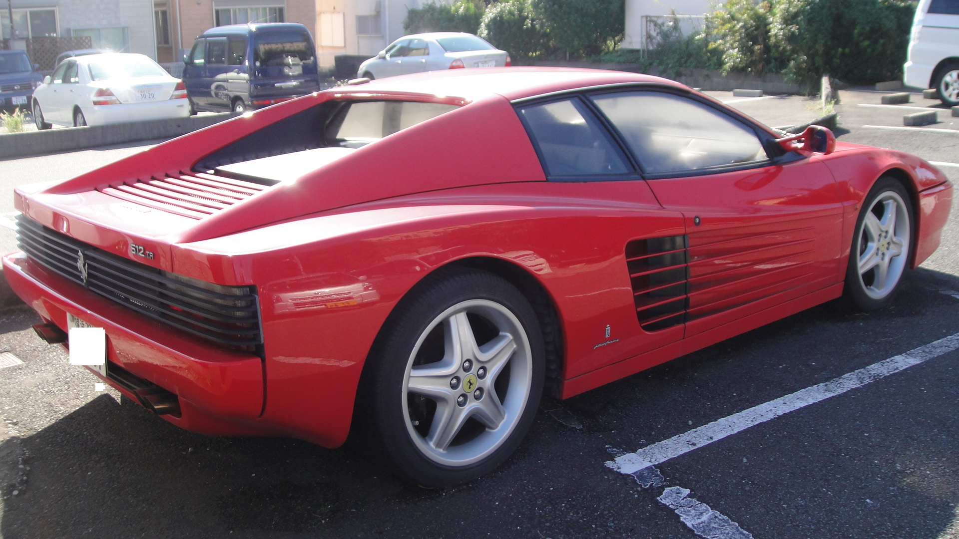 rear view of Ferrari 512TR